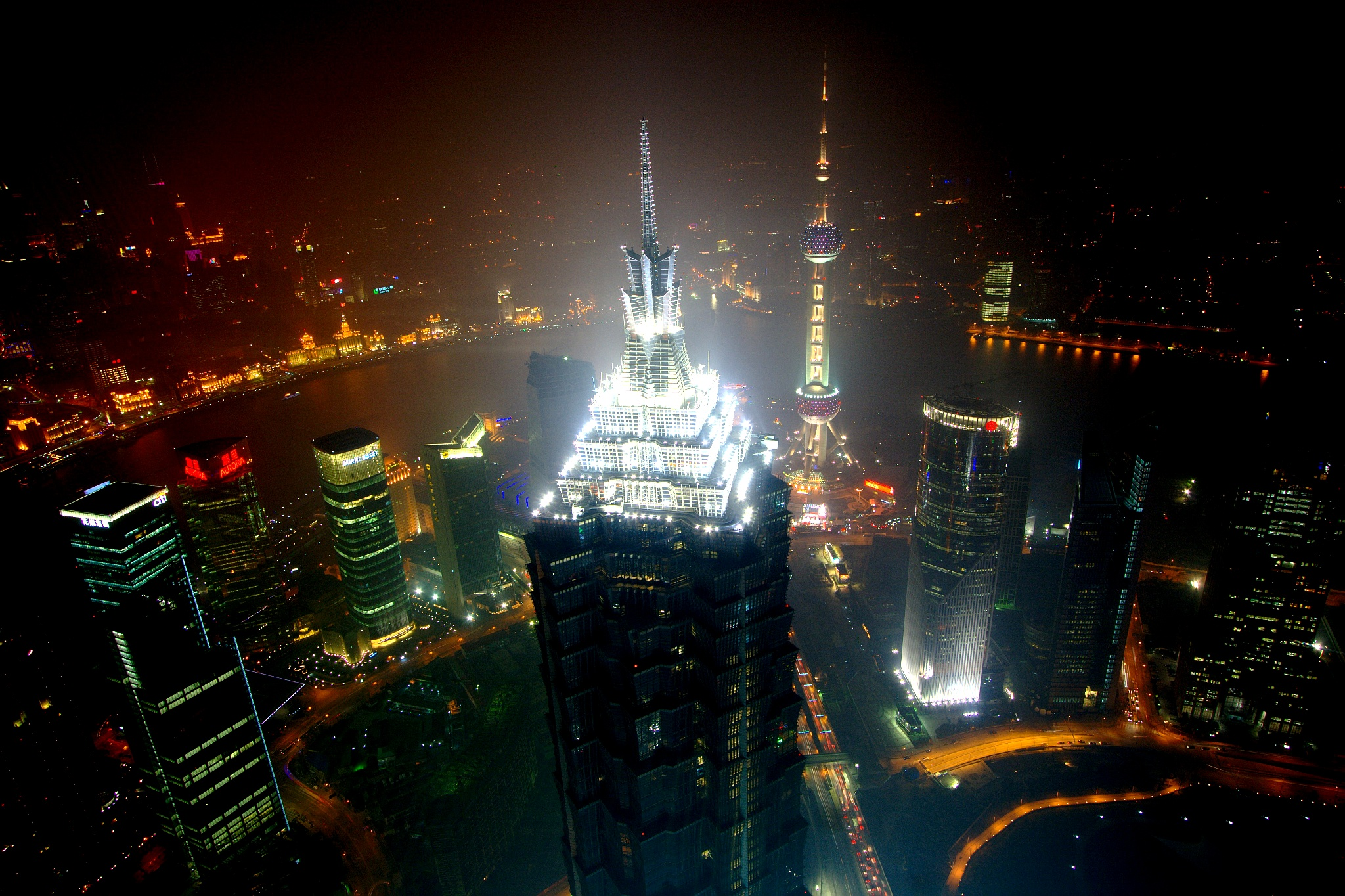 Shanghai (Pudong and The Bund) as seen from the 94th floor of the Shanghai World Financial Center. The building in the foreground is the Jin Mao Tower.